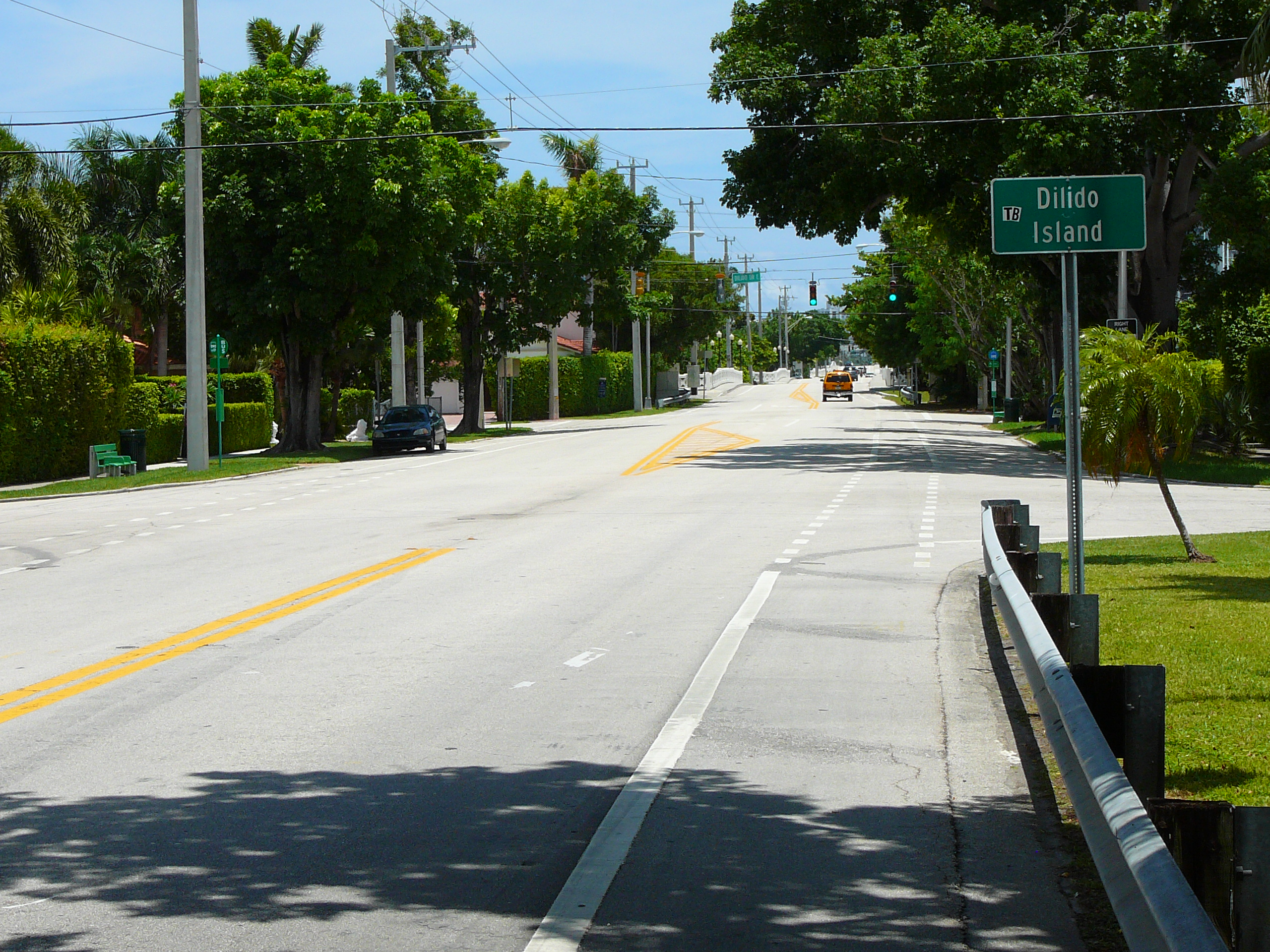 = Summary == Description